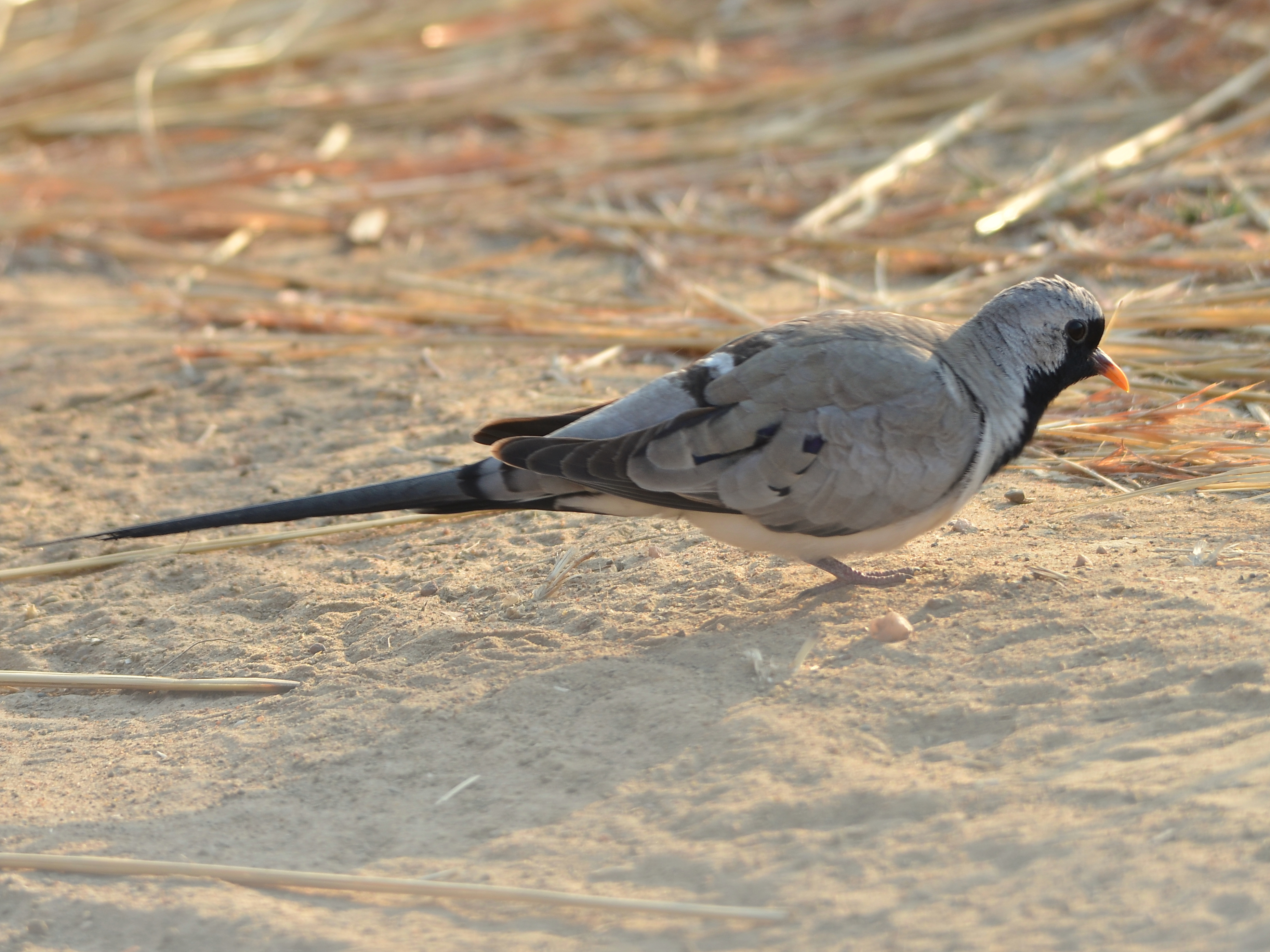 Male Namaqua Dove close to the Kafue River near Kafue, Zambia